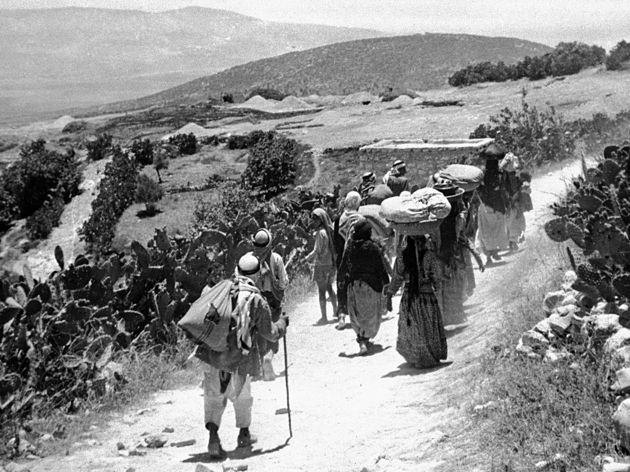 Qumya